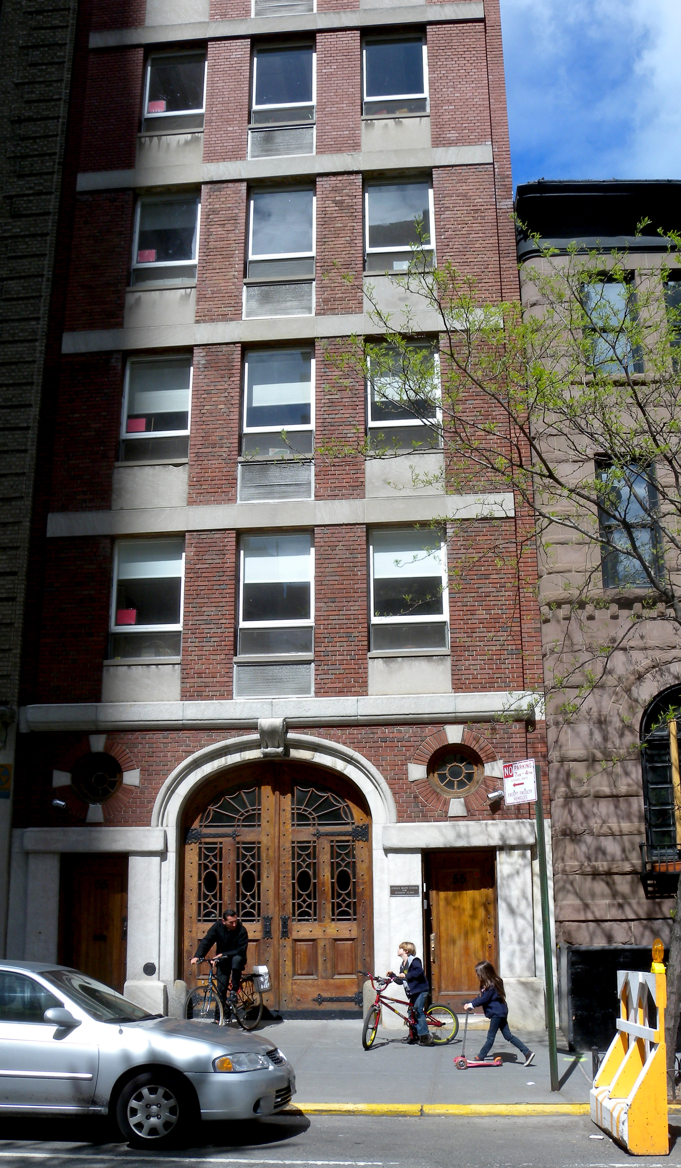 Looking north across East 90th Street at Horace Mann Nursery School on a sunny day.